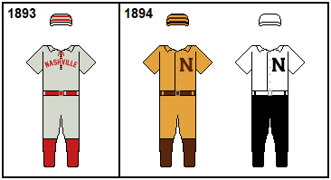 Uniforms of the Nashville Tigers minor league baseball team in 1893 and 1894